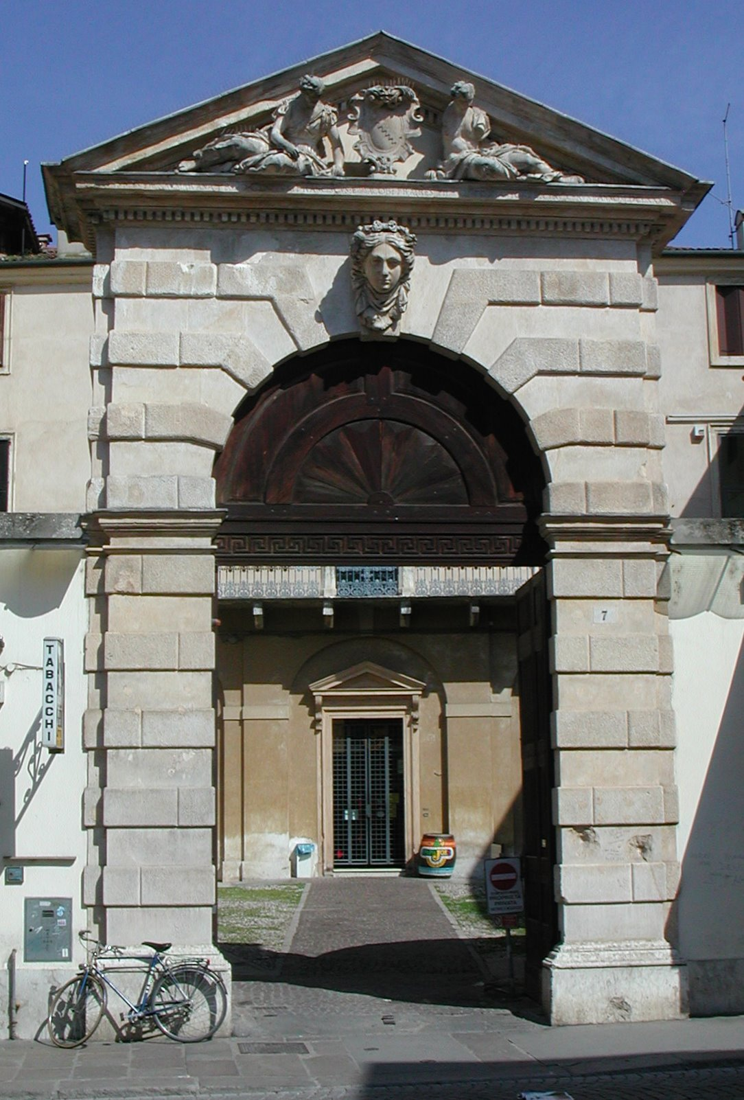 Entrance of Palazzo Salvi, Vicenza.